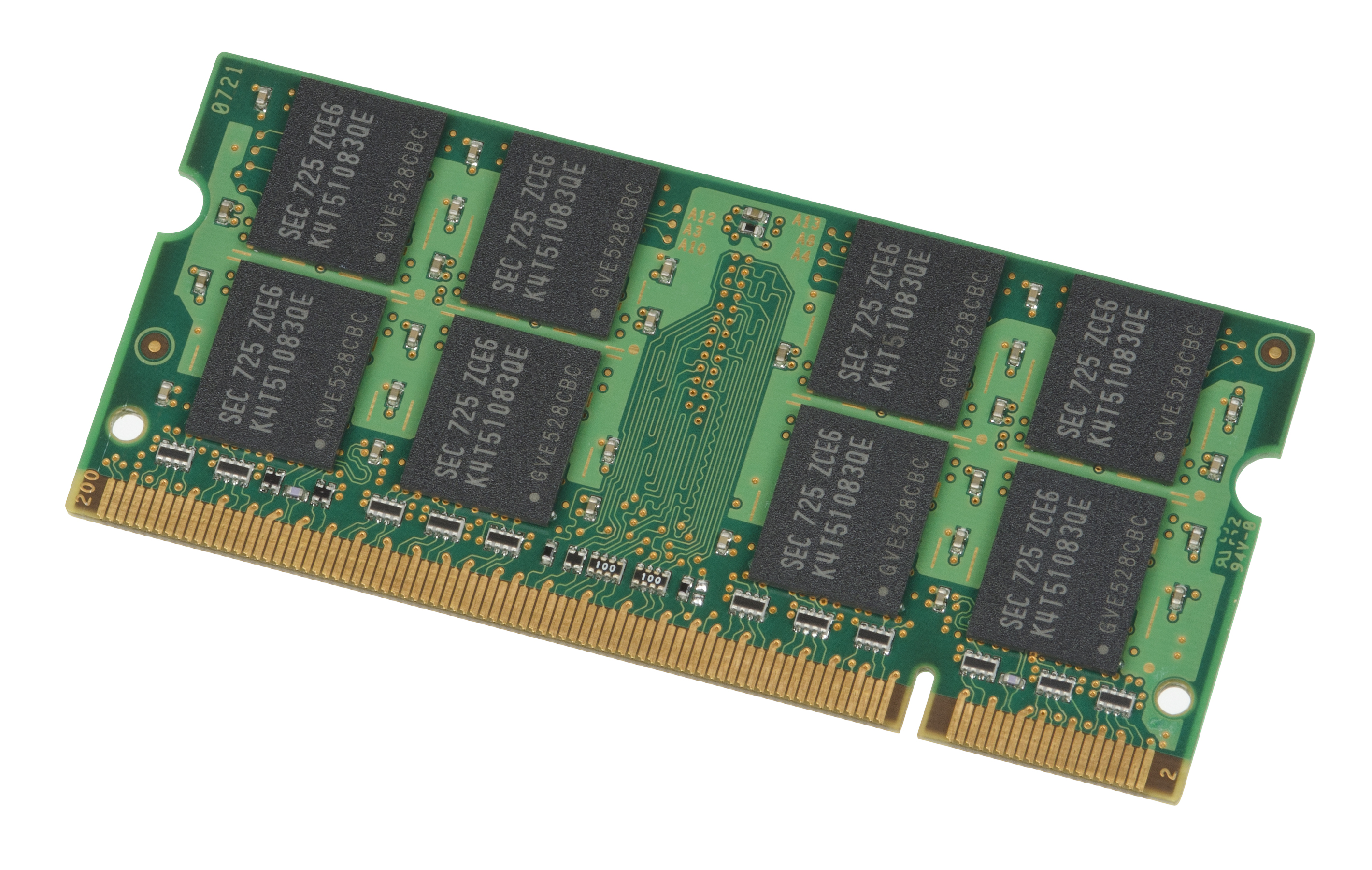 A 1 gigabyte stick of DDR2 667 MHz (PC2-5300) laptop RAM, made by Samsung and pulled from a 2007 MacBook laptop.